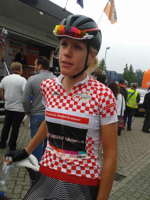 Ellen van Dijk before the start of stage 5 of the 2013 Holland Ladies Tour in the combined classification jersey